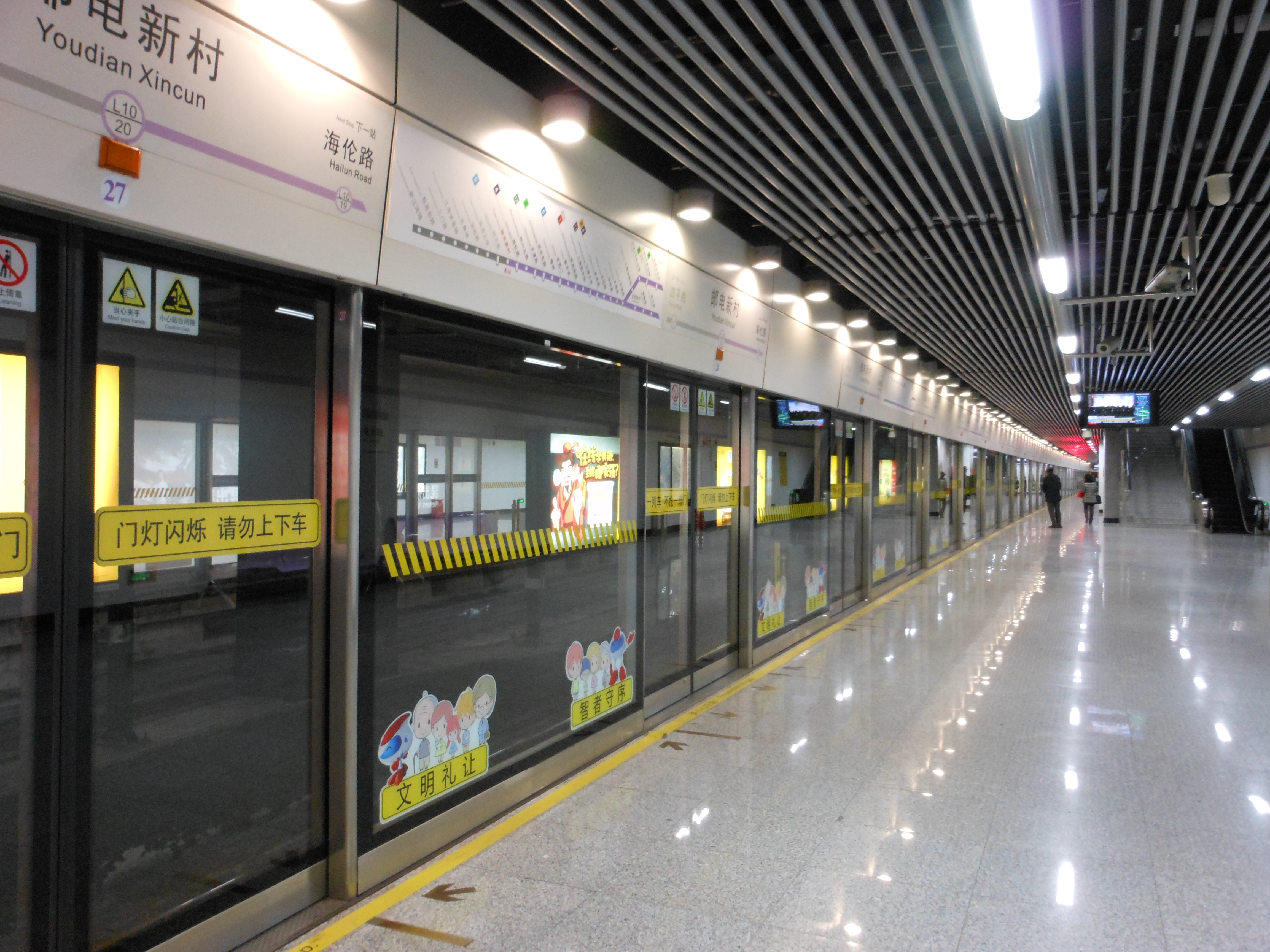 Line 10 Platform of Youdian Xincun Station